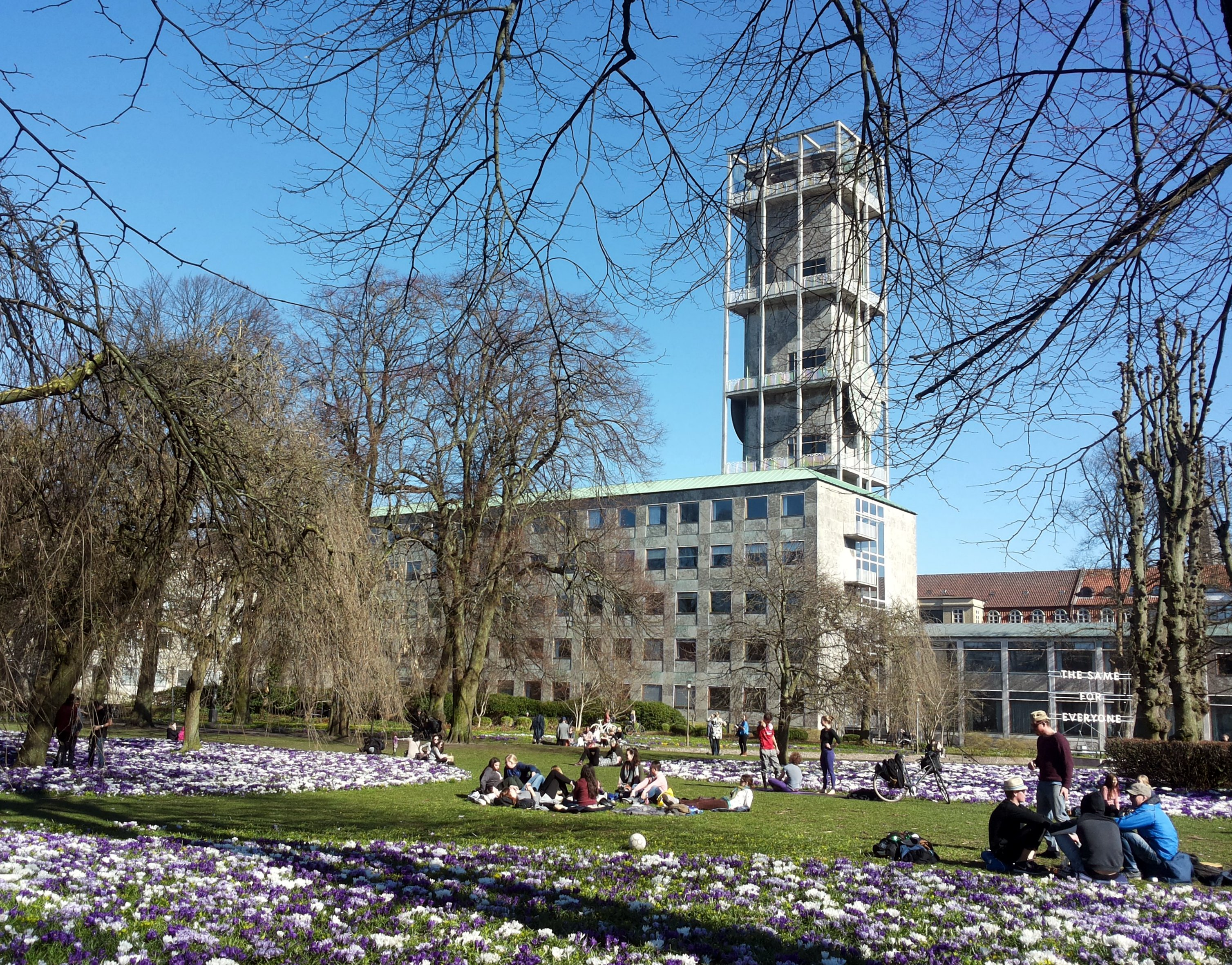 Aarhus City Hall spring 2017